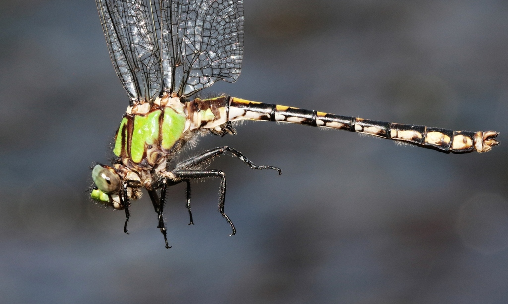 Riffle Snaketail (Ophiogomphus carolus), Mont�e du Sault, St-Rapha�l, Bellechasse, QC, Canada